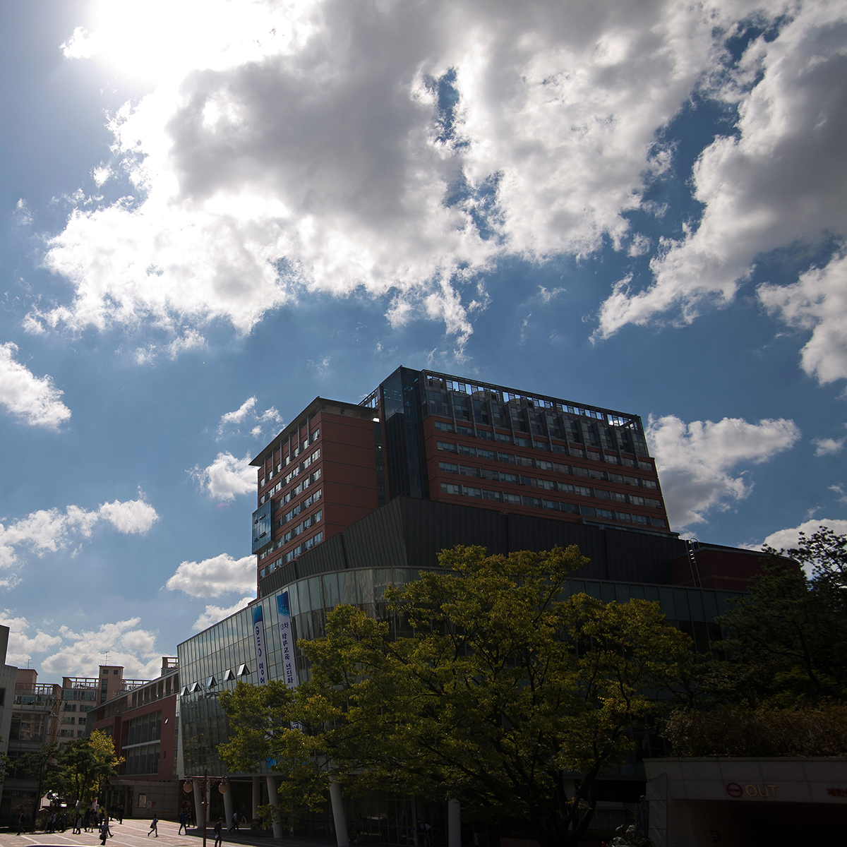 International Hub